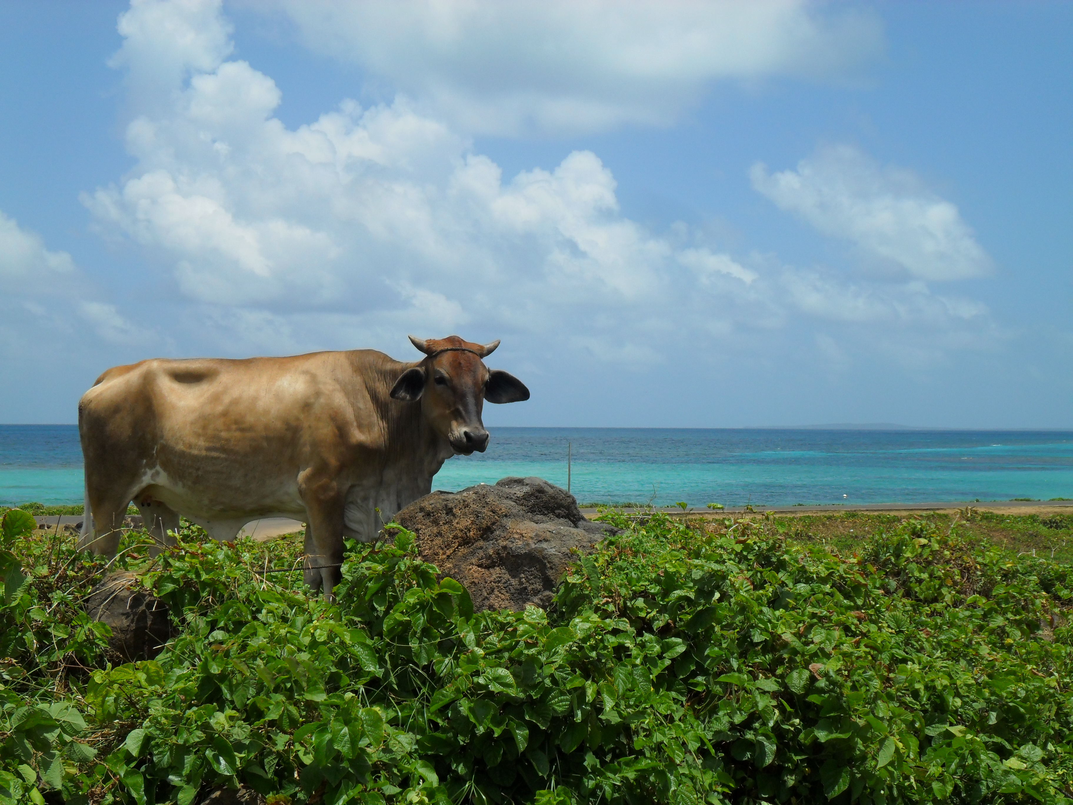 Cow enjoying the morning view of a calm Caribbean Sea on Corn Island, Nicaragua